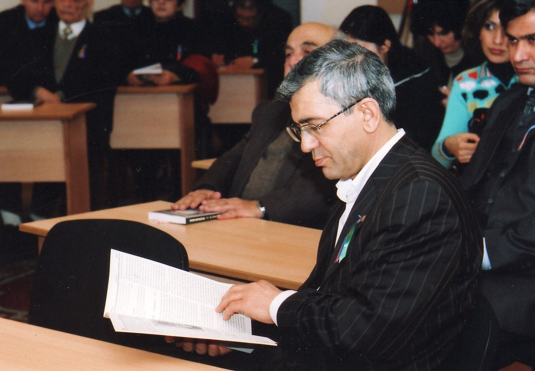 Исследователь в области гуманитарных и социальных наук